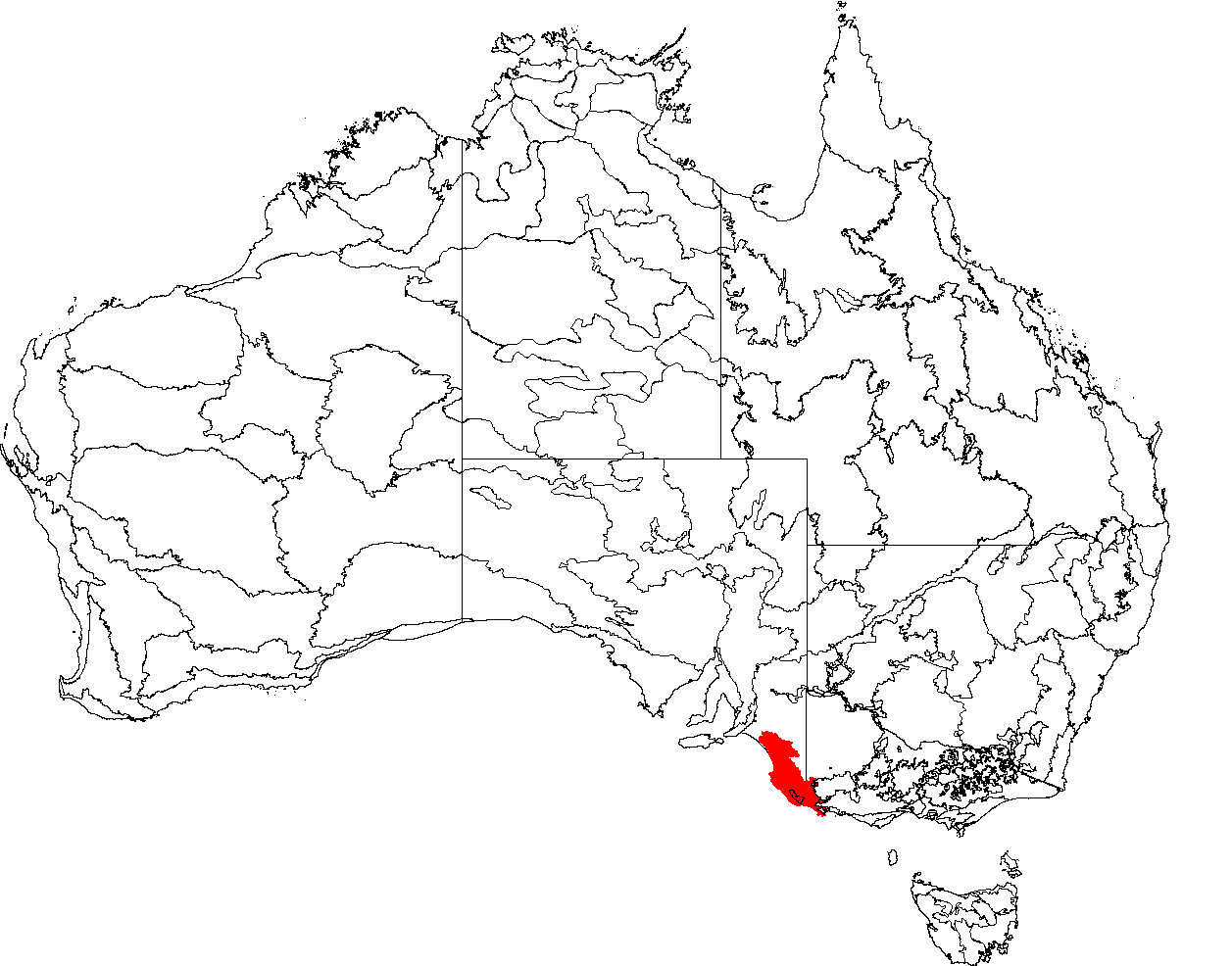 This is a map of the Interim Biogeographic Regionalisation of Australia (IBRA), with state boundaries overlaid. The Naracoorte Coastal Plain region is shown in red.